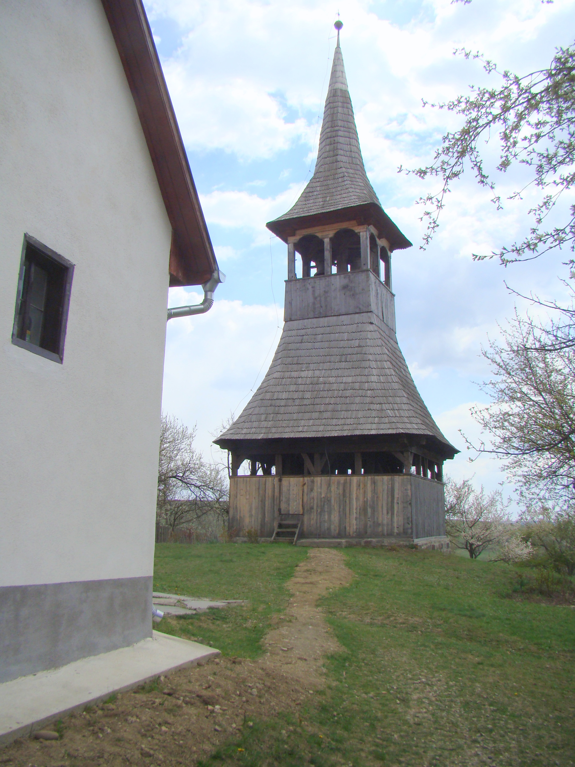 Reformed church in Păltiniș, Harghita county, Romania